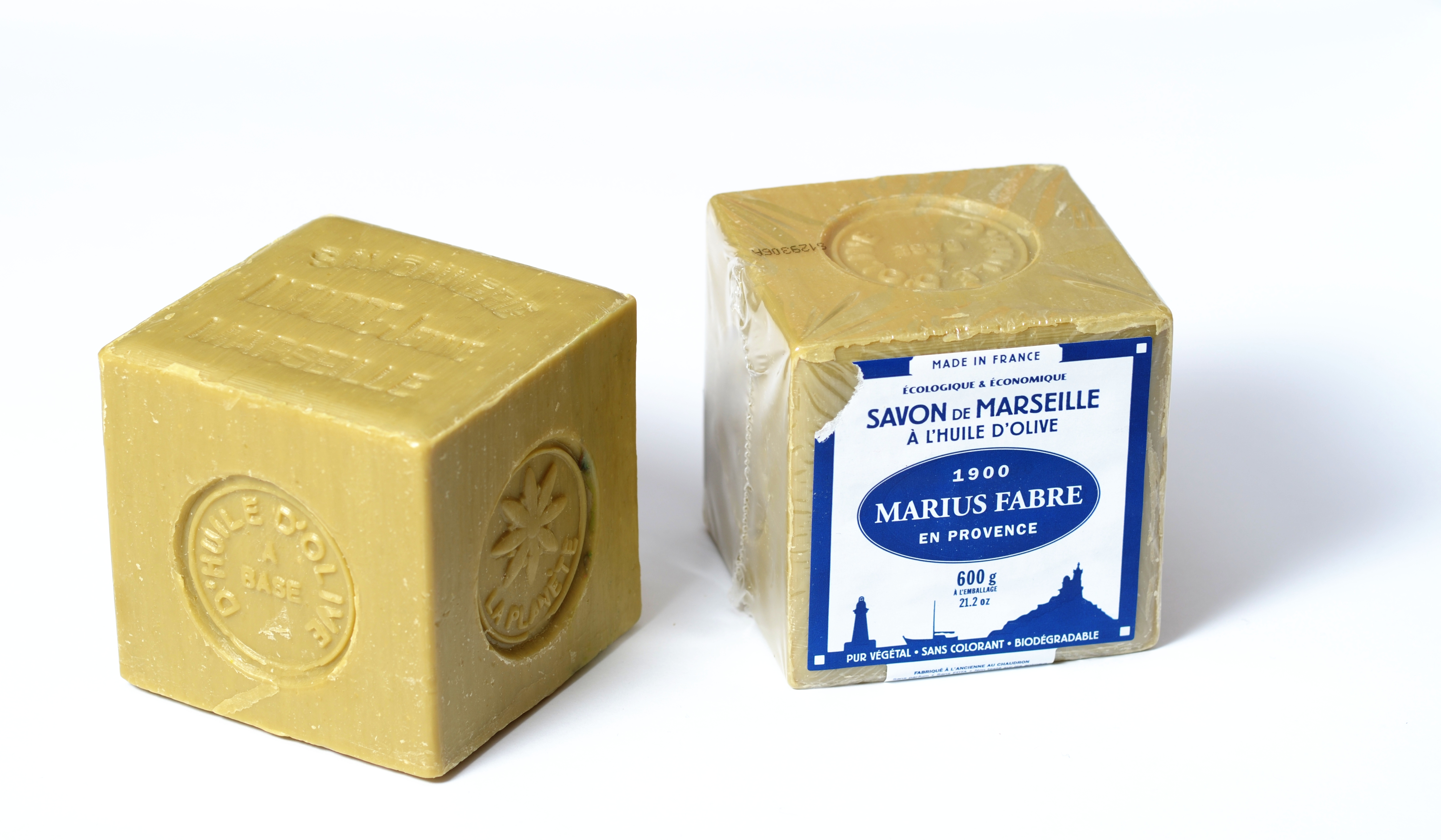 Two blocks of Marseille Soap from Marius Fabre, made of oliv oil and coconut oil